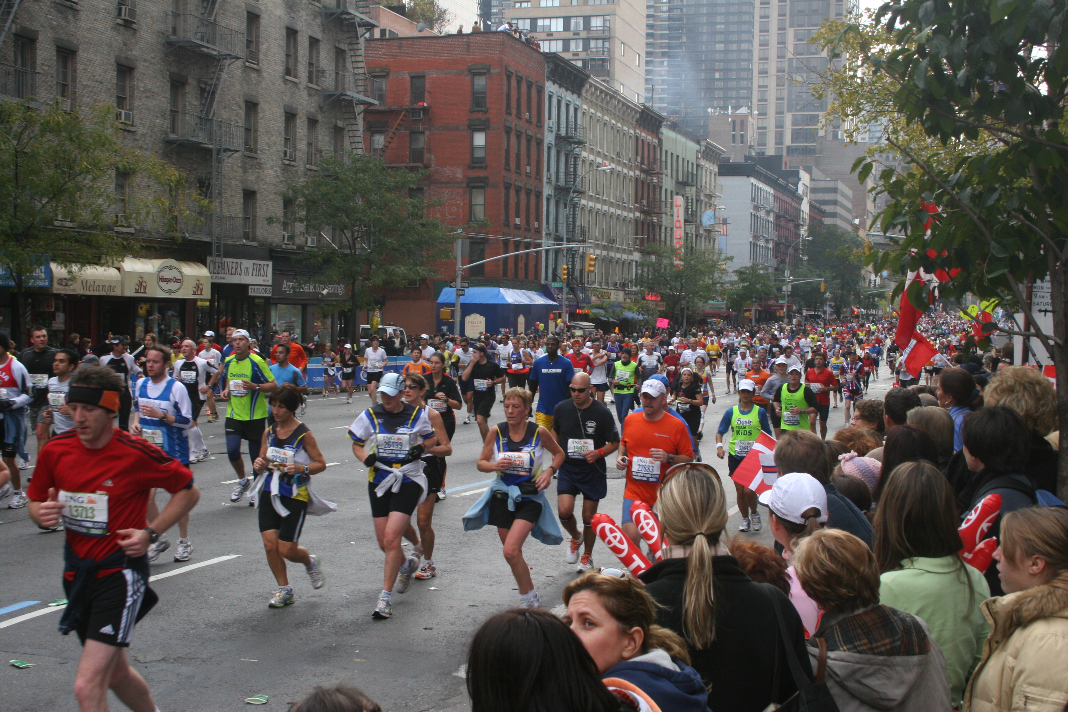 NYC Marathon in 2007, Upper East Side segment